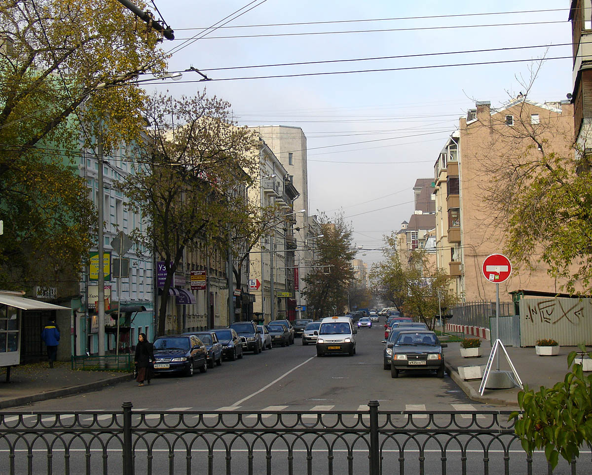 3-rd Tverskaya-Yamskaya Street